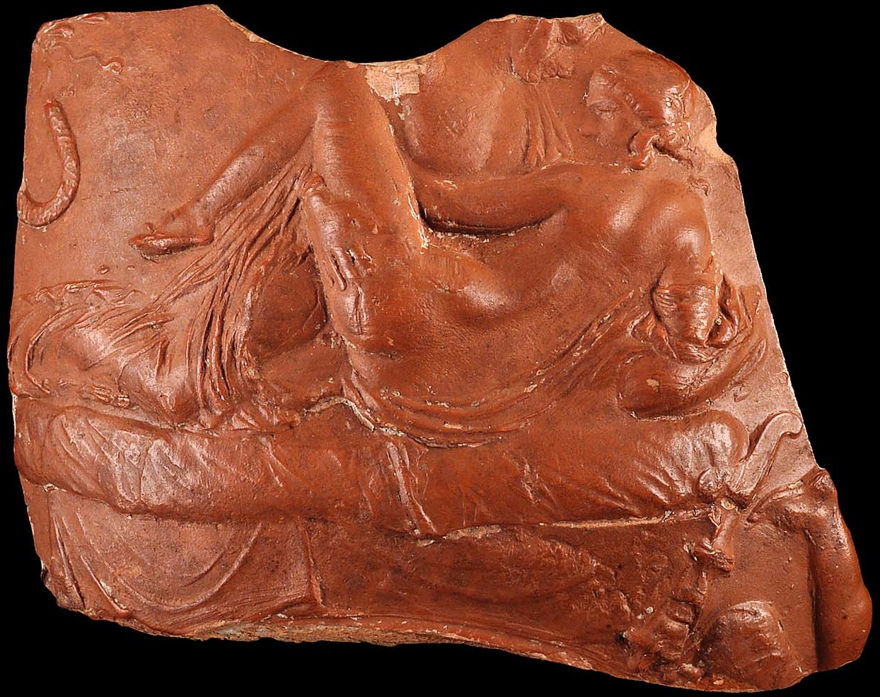 Vase, Arretine Bowl, originally four fragments, two of which mended into one piece, including all of foot. Two symplegmata and part of a third. Provenance By 1900: with Edward Perry Warren (according to Warren's records: Bought in Italy in 1900.); 1908: gift of Edward Perry Warren to MFA; accessioned 1910 Credit Line Gift of Edward Perry Warren Roman Early Imperial Period